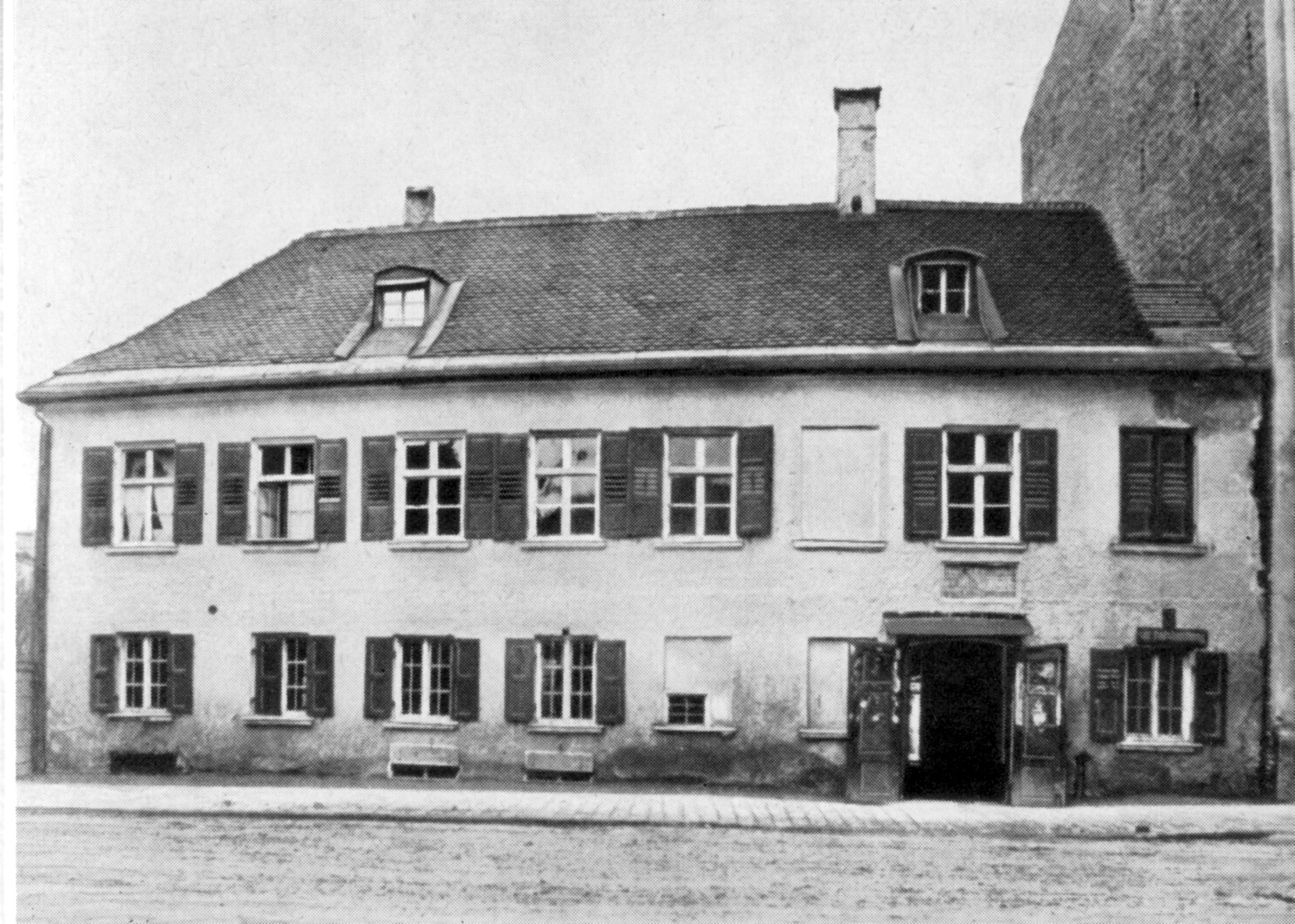 Inn owned by comedian